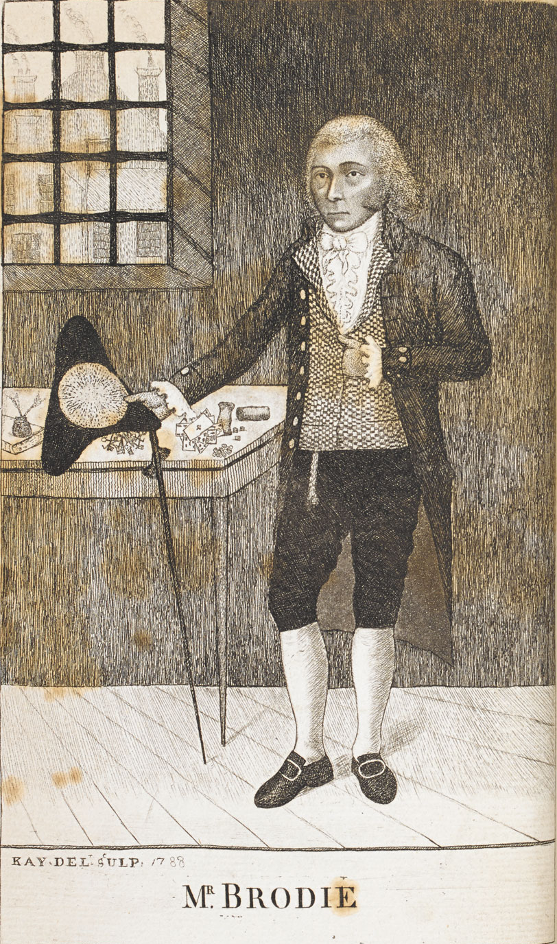 Plate Illustration of Scottish Cabinet Maker William Brodie from the 1788 book: "An Account of the Trial of William Brodie, and George Smith, before the High Court of Justiciary, on Wednesday the 27th, and Thursday the 28th days of August, 1788; for breaking into, and robbing, the General Excise Office of Scotland, on the 5th day of March last."